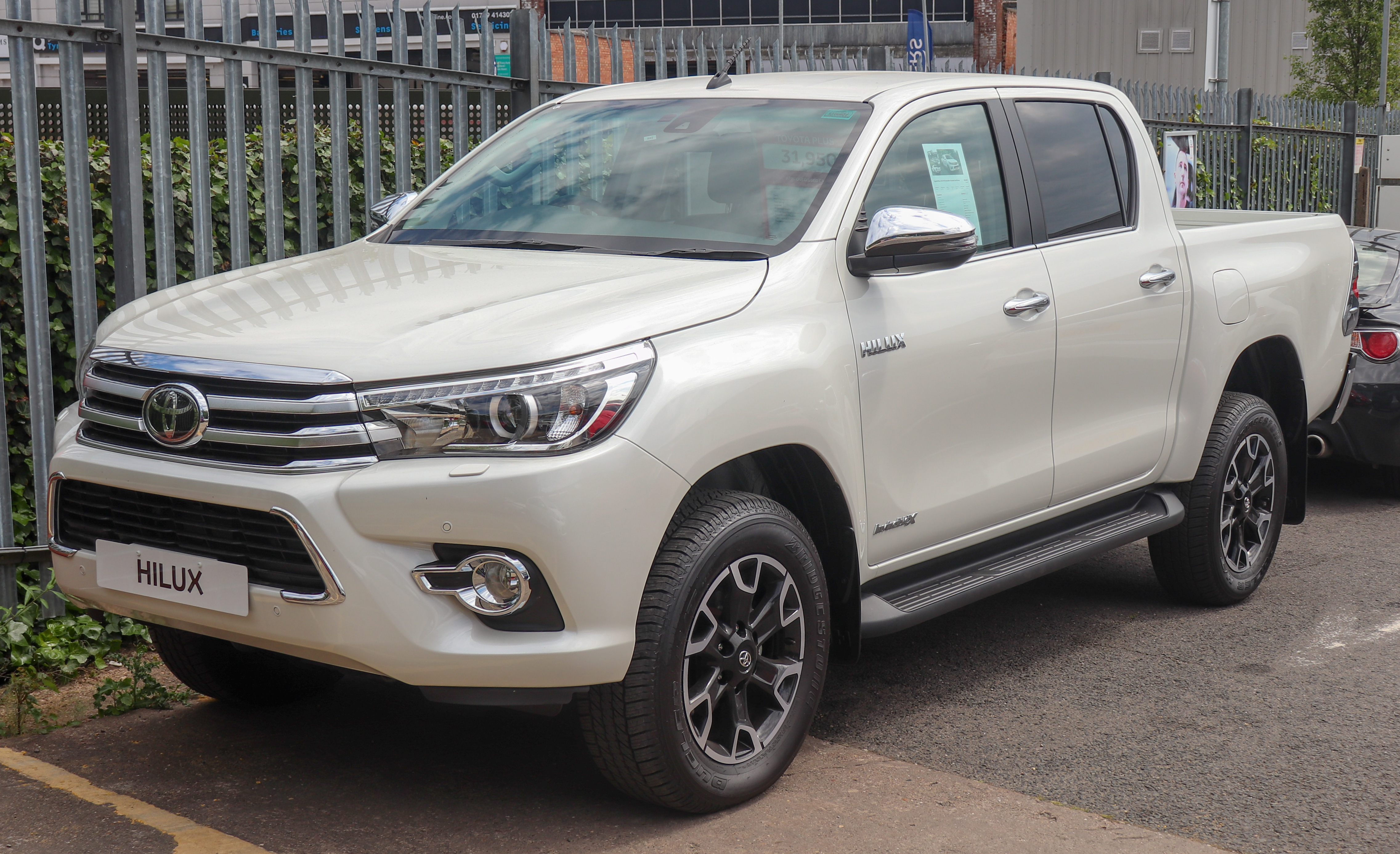 2019 Toyota Hilux Invincible X D-4D 2.4 Front Taken in Stratford-upon-Avon